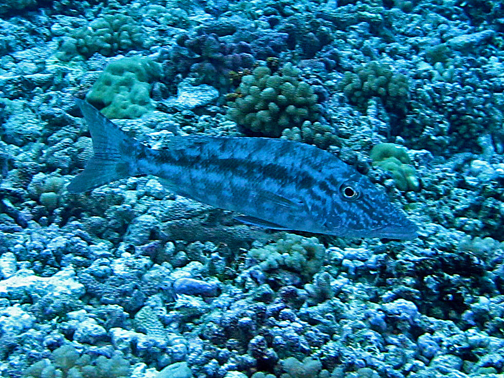 Lethrinus olivaceus. Rangiroa, Polynesia